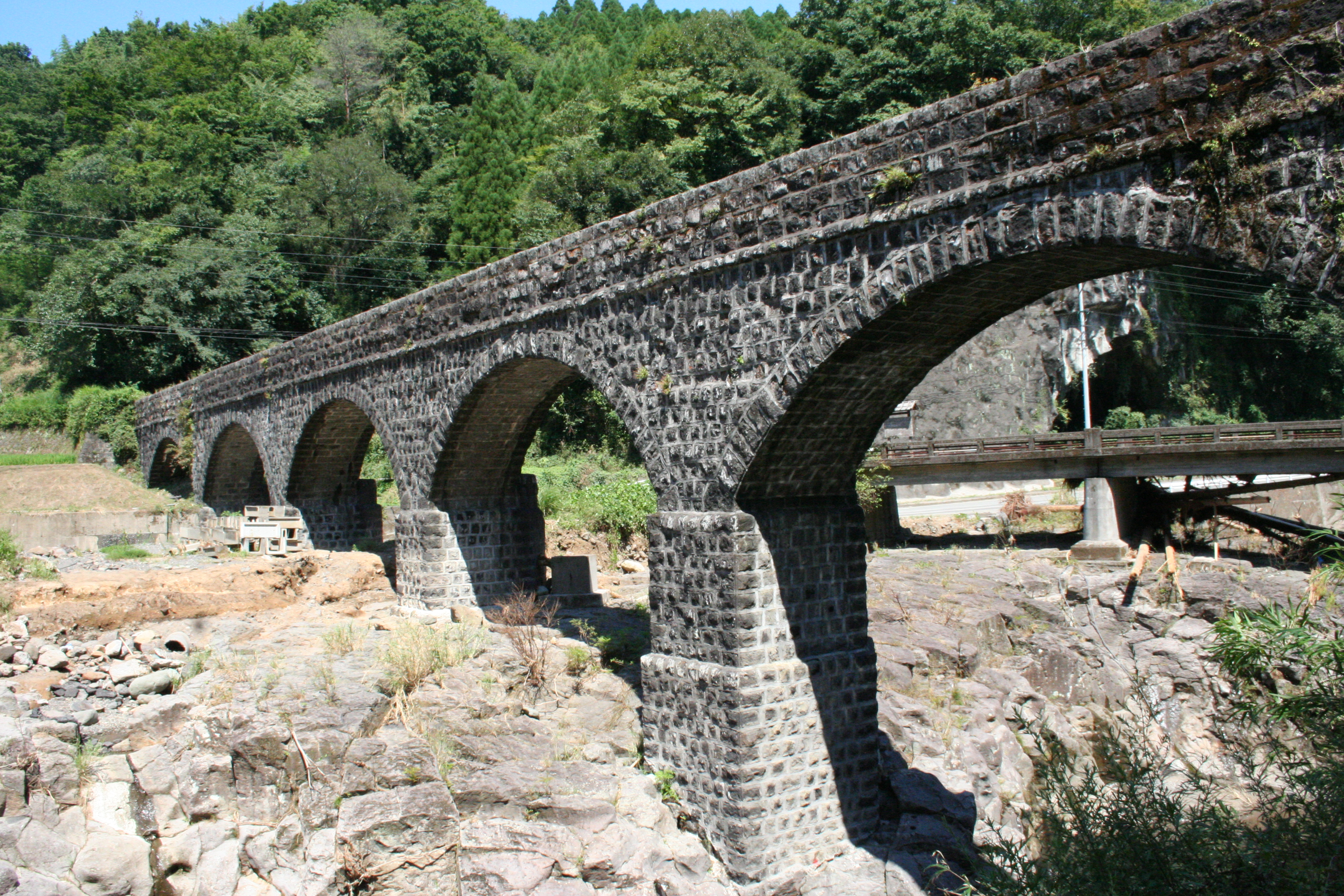 Description:Meisei Flume Aqueduct stone arch bridge(1919). Takeda-city, Oita.Prefecture, Japapn. 明正井路一号幹線一号橋(大分県竹田市大字門田) Source: self-made Date=2007/08/17 Photographer: Tsutsui Mizuki